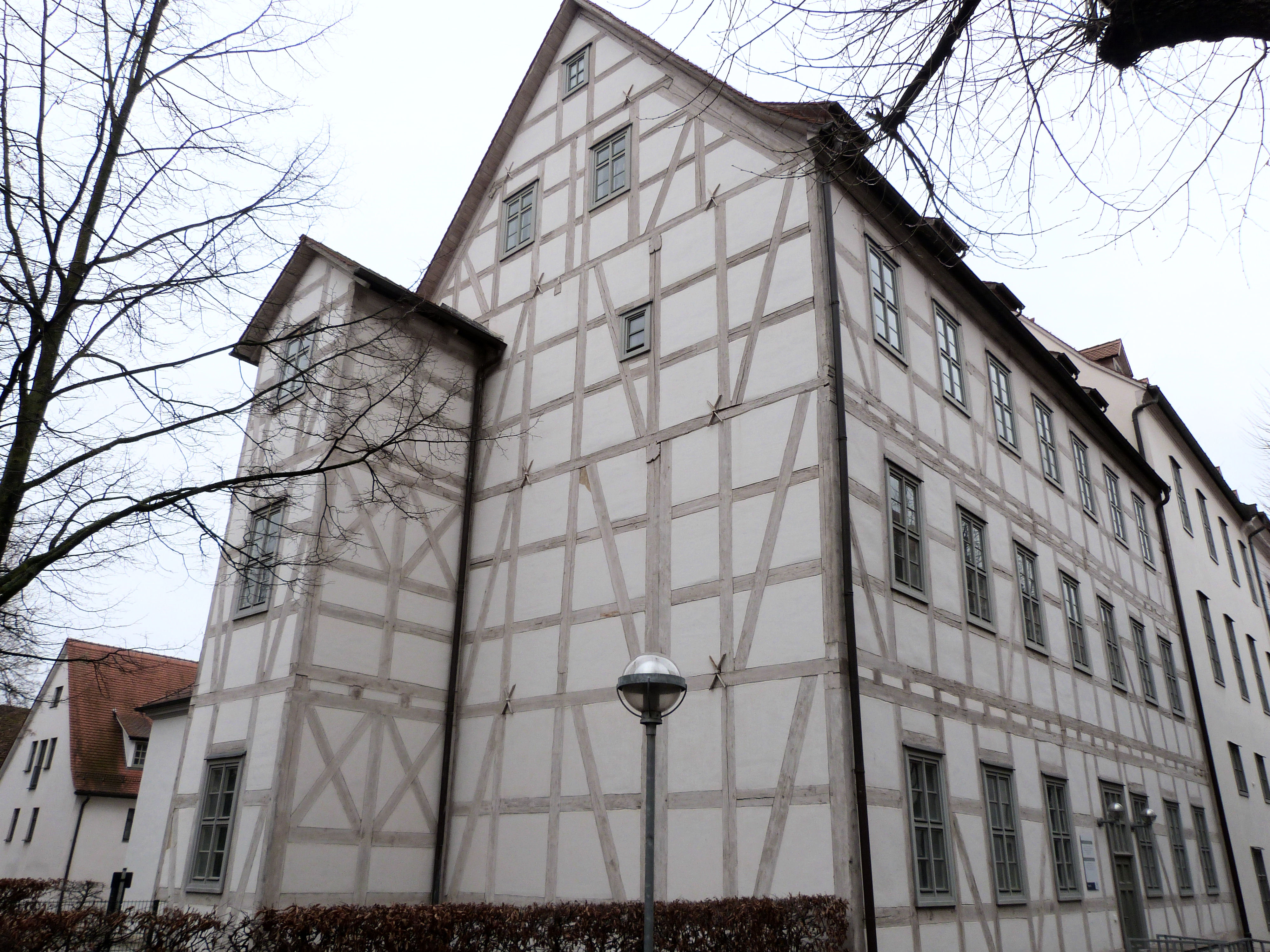 House No. 25, former Old orphanage for girls, Francke foundations in Halle (Saale), today university building